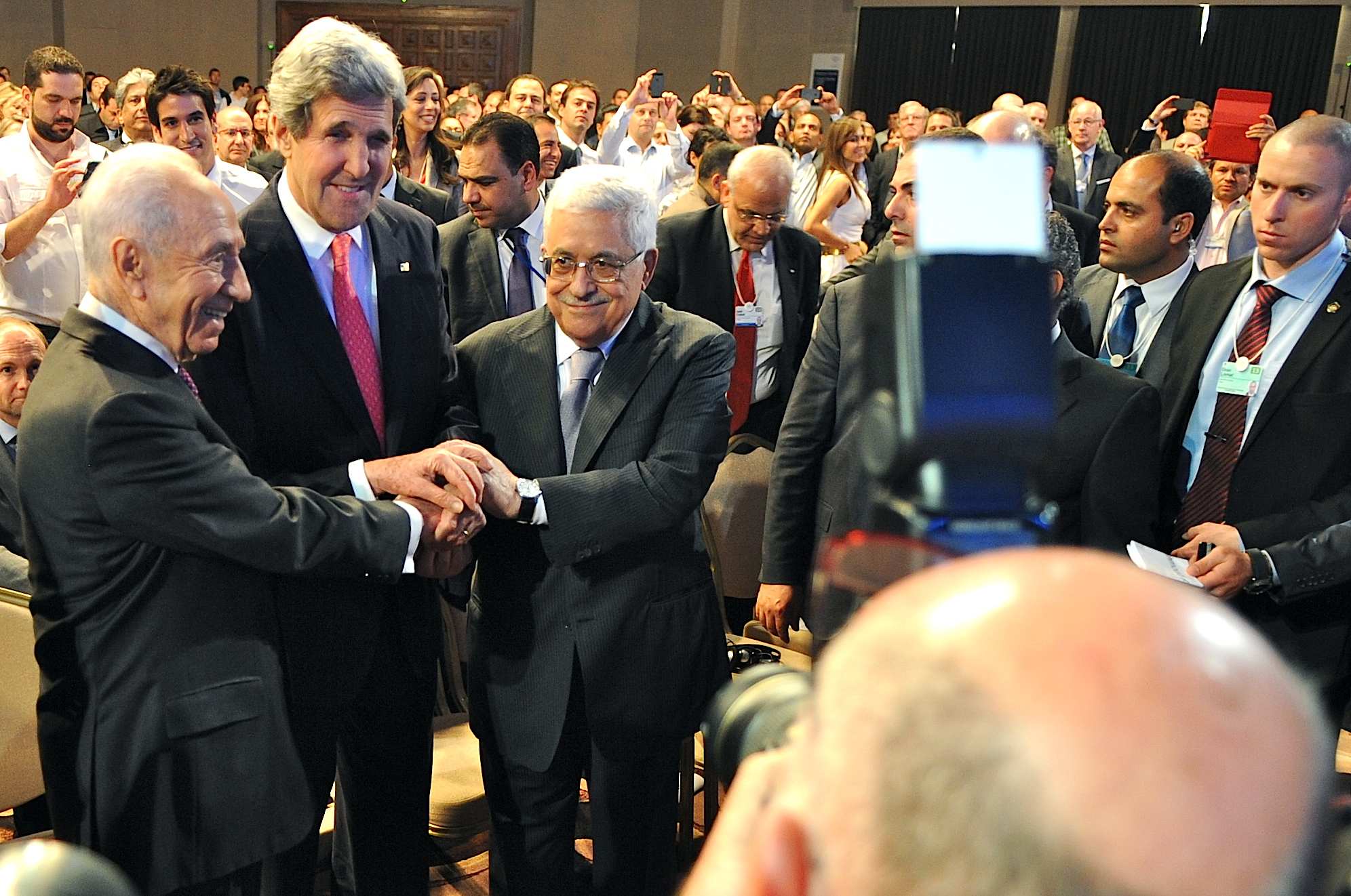 Israeli President Shimon Peres, U.S. Secretary of State John Kerry, and Palestinian Authority President Mahmoud Abbas join in a handshake at the beginning of their three speeches at the World Economic Forum in Dead Sea, Jordan, on May 26, 2013. [State Department photo/ Public Domain]